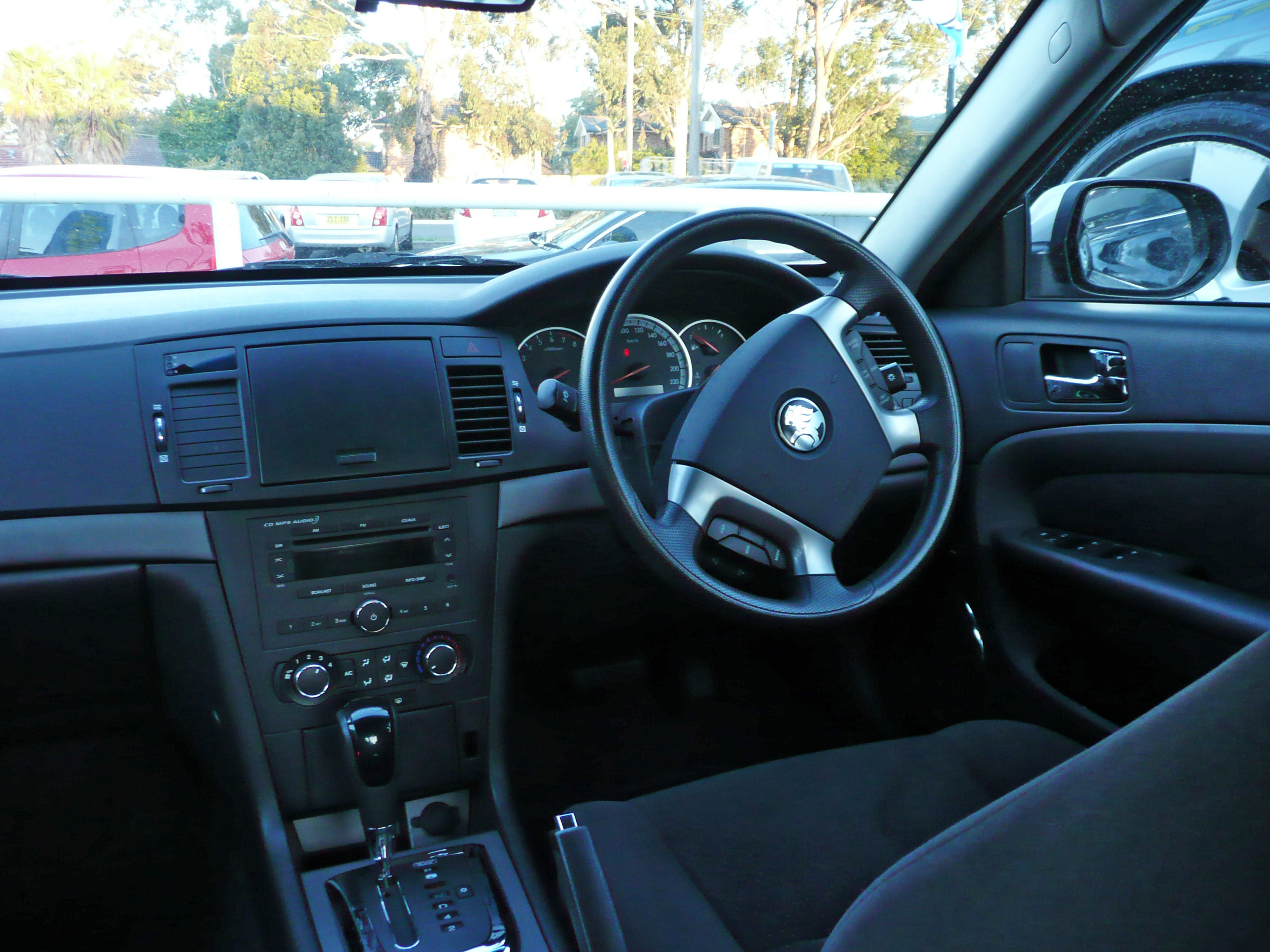 2007 Holden Epica (EP) CDX sedan. Photographed at McGrath Sutherland Holden, Kirrawee, New South Wales, Australia.